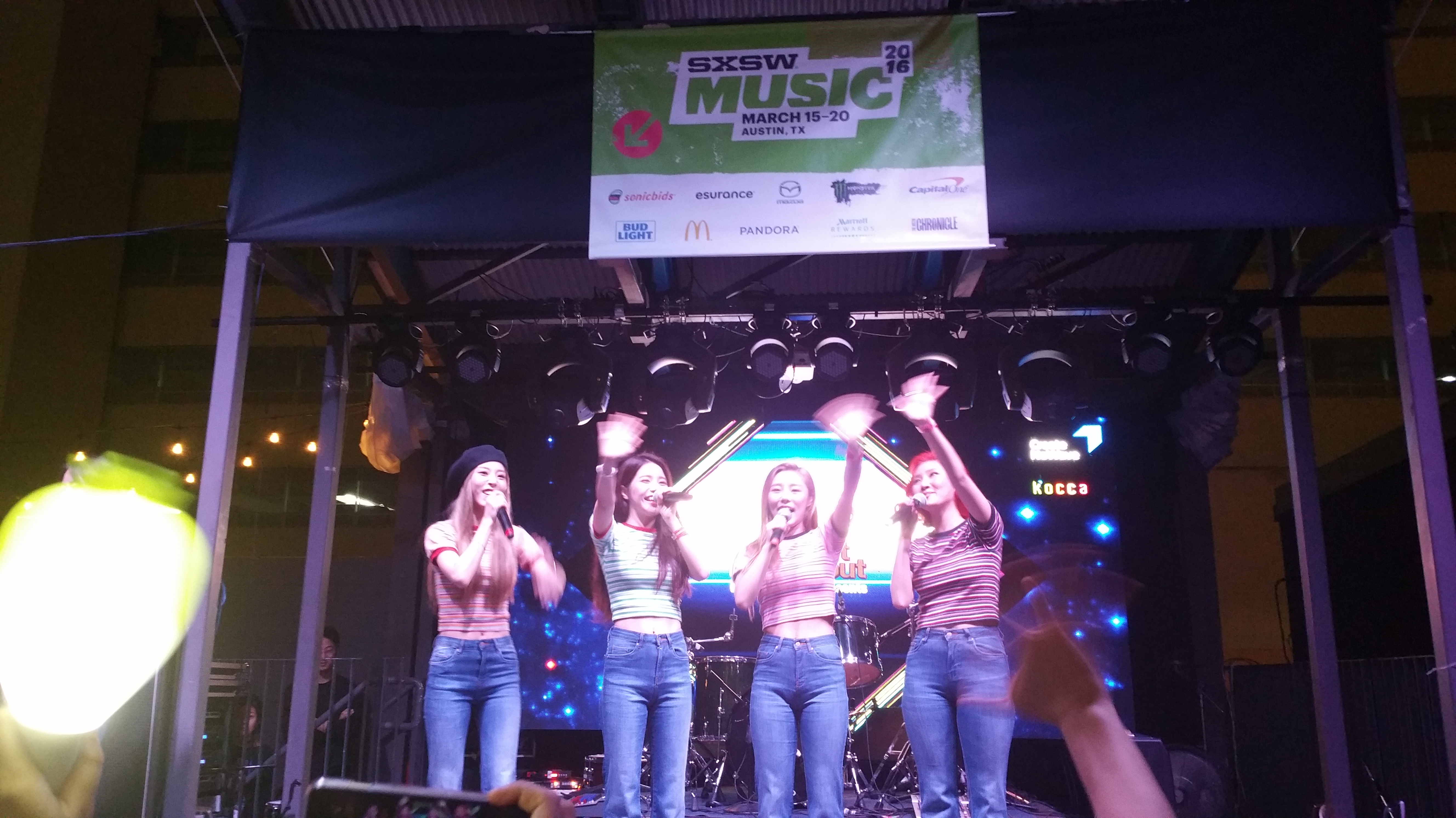 KPNO SXSW 2016, The Belmont, Austin, Texas, (Mamamoo).